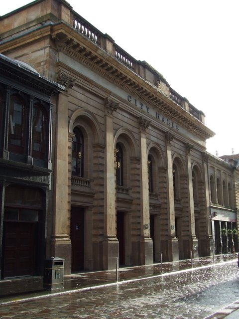 City Halls On Candleriggs, in the heart of the Merchant City.